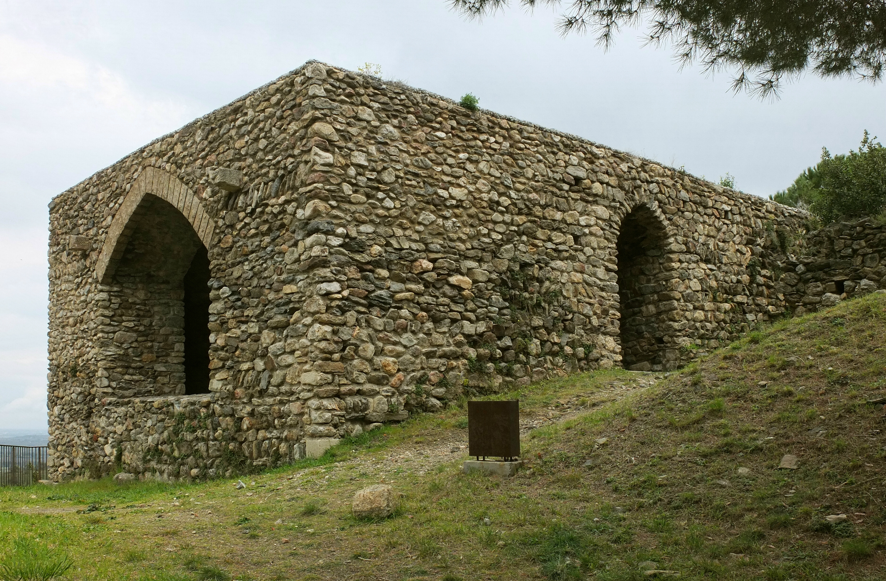 Montesquieu-des-Albères Castle, 11th century (exp. s-w)